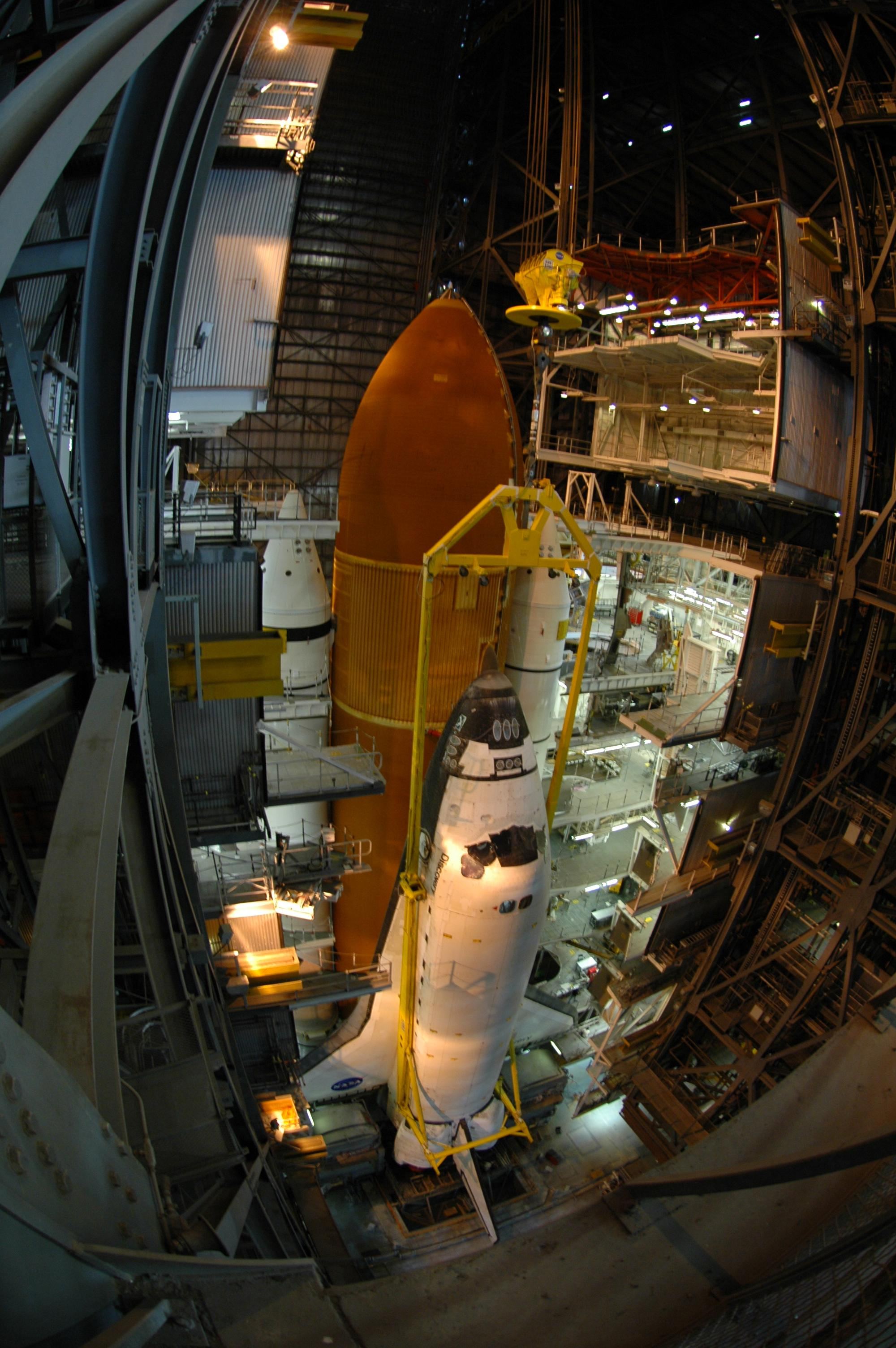 A fish-eye view shows space shuttle Discovery after being lowered next to the external tank and solid rocket boosters already installed on the mobile launcher platform